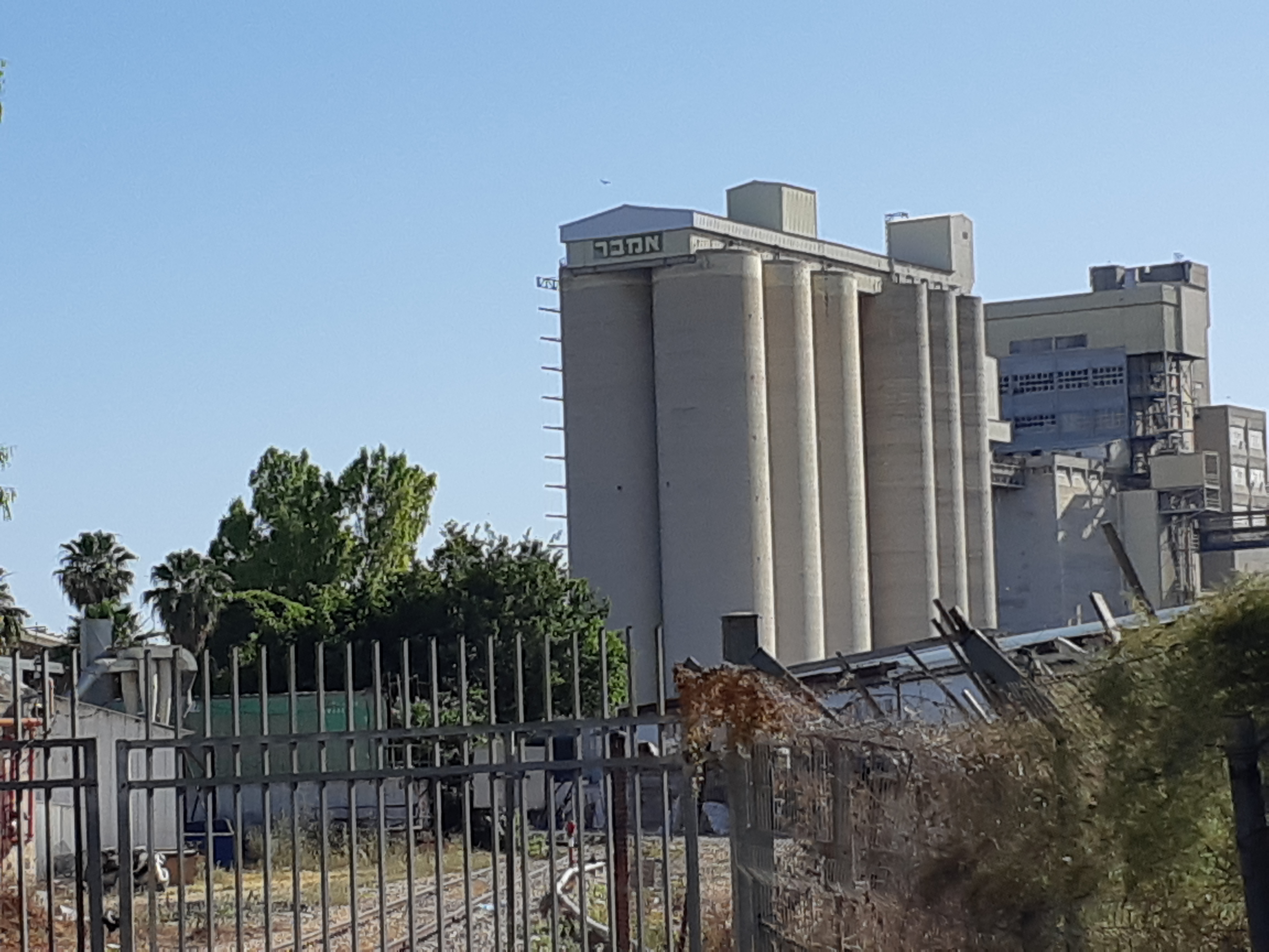 Ambar Feed Mill (Ambar North) of Granot Central Cooperative near to Gan Shmuel